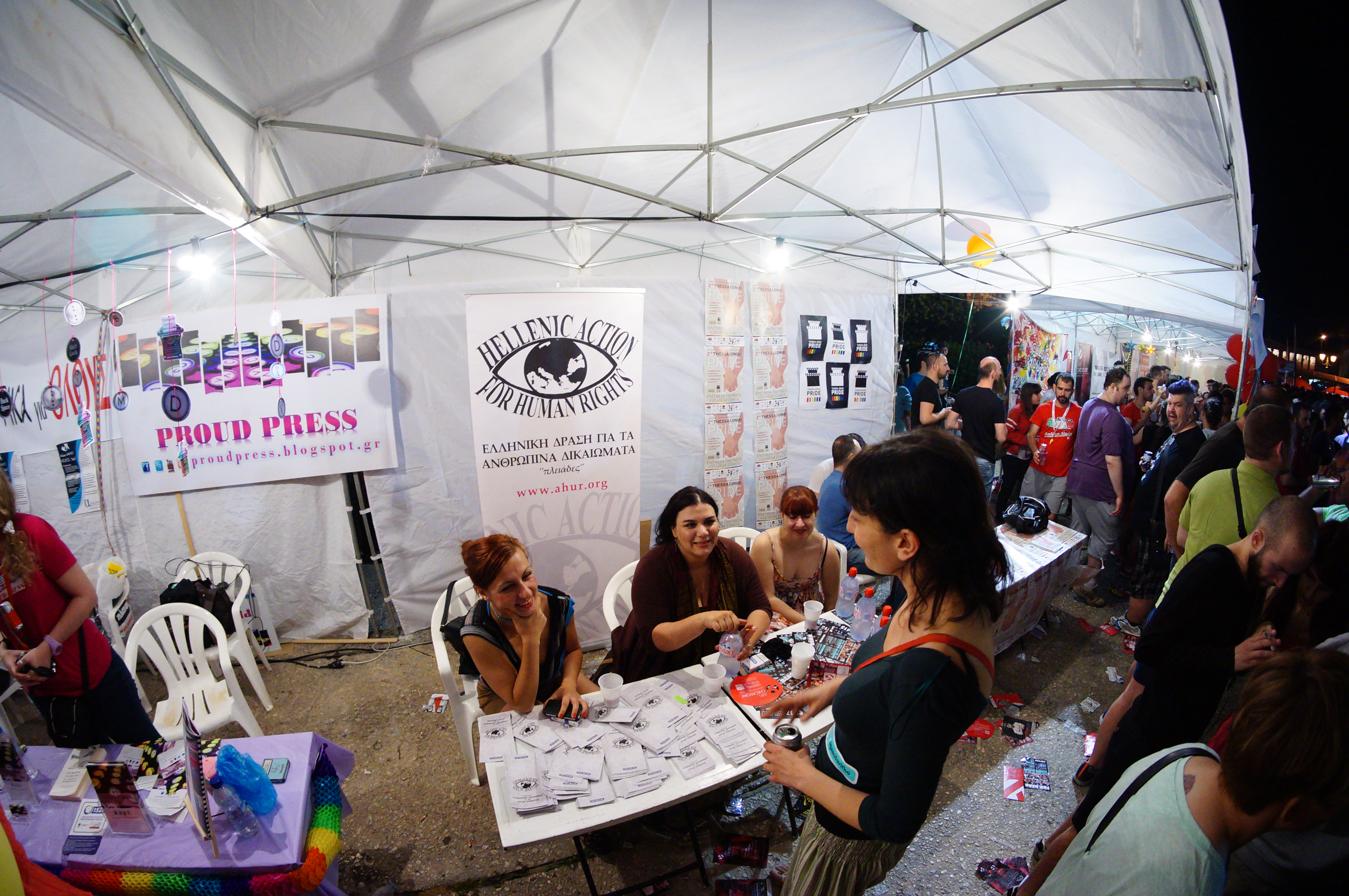 Greece-based Lawyer Electra Leda Koutra at the Athens Pride 2013 on June 8 ion a public place on the Korai Square at her human rights organization's stand, informing Athens Pride visitors about her organization's activities. She was the subject of nationwide and international press attention when she claimed she was harassed by the police while she was visiting a transgender client [1] and she is also known for her work at TEDxAcademy [2] Photo for journalistic purposes without any copyright restrictions.